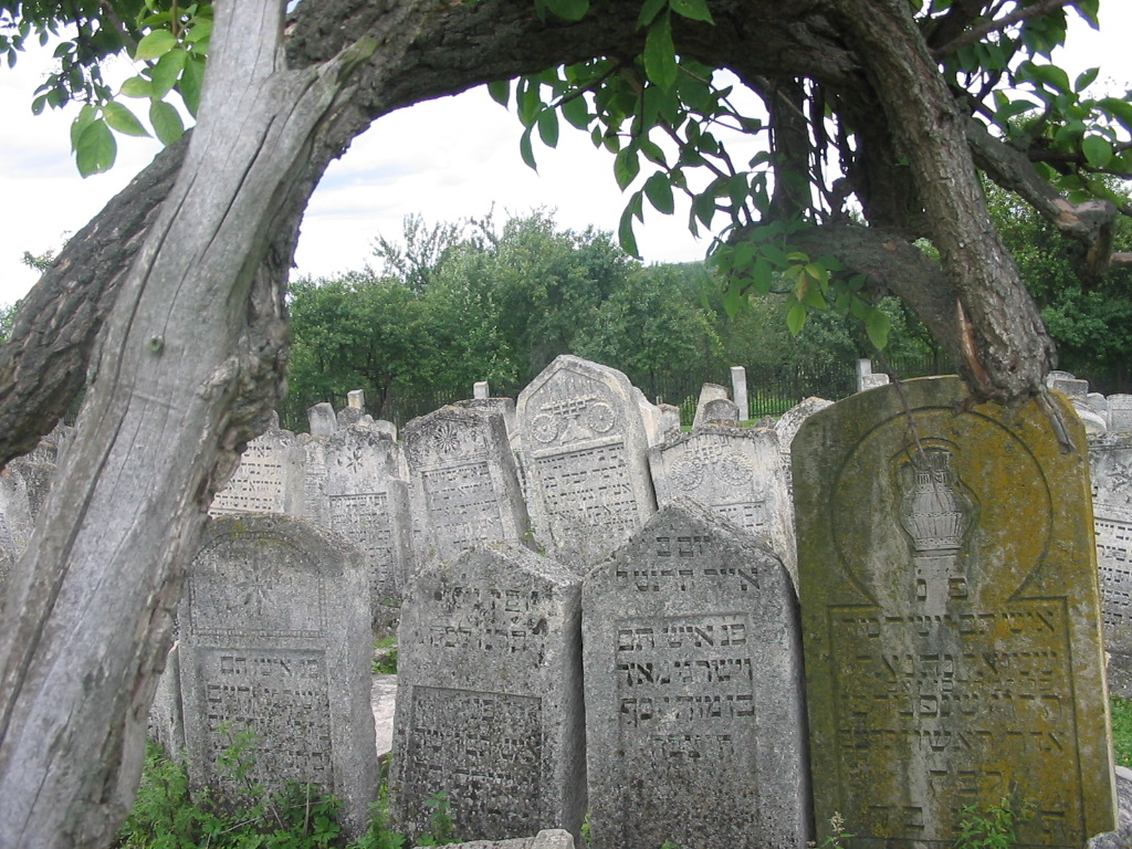 Jewish cemetery in Pidhaytsi, western Ukraine